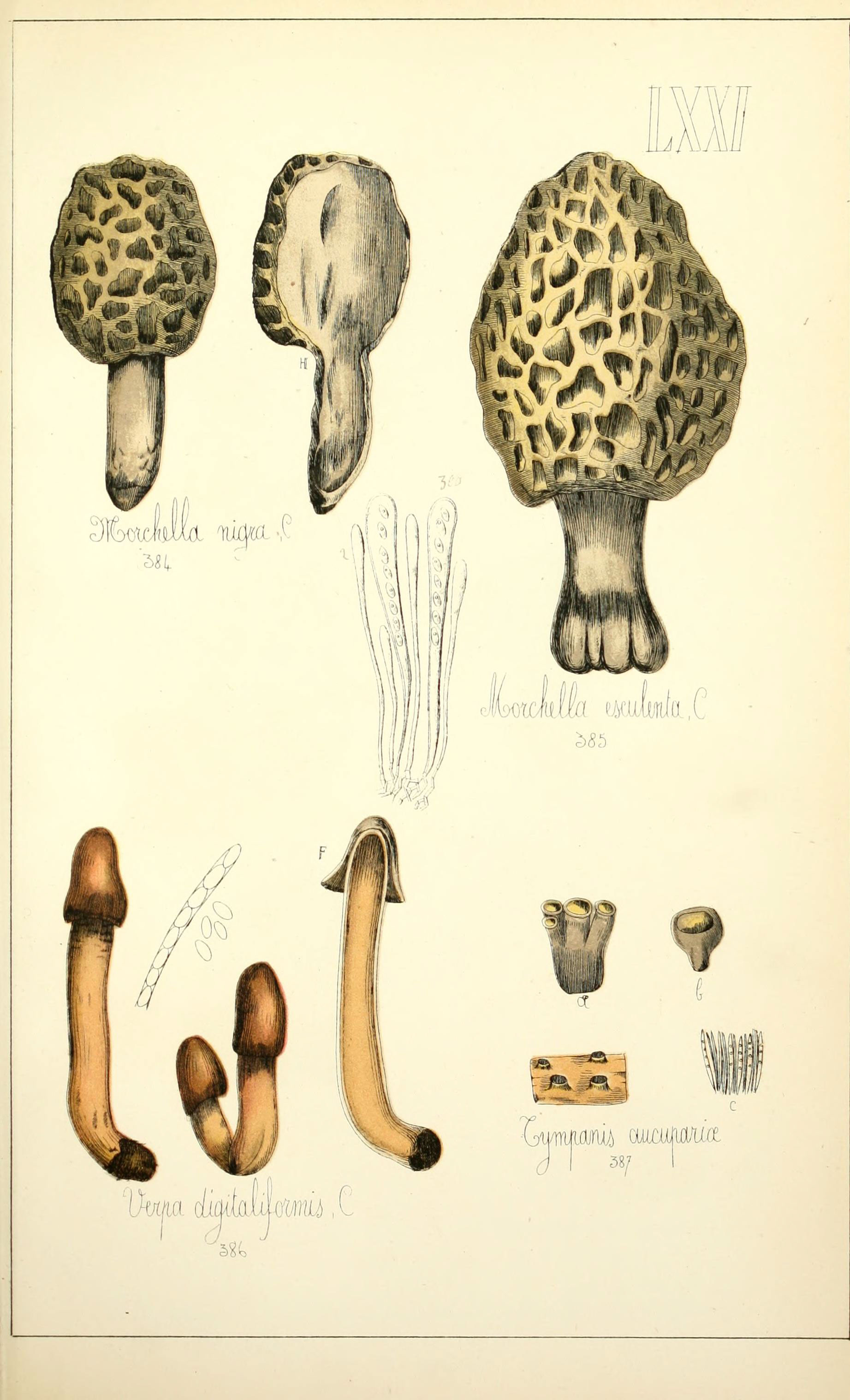 M MM 5«V UM Dvtjl I I ' ' àS5 f s s8t